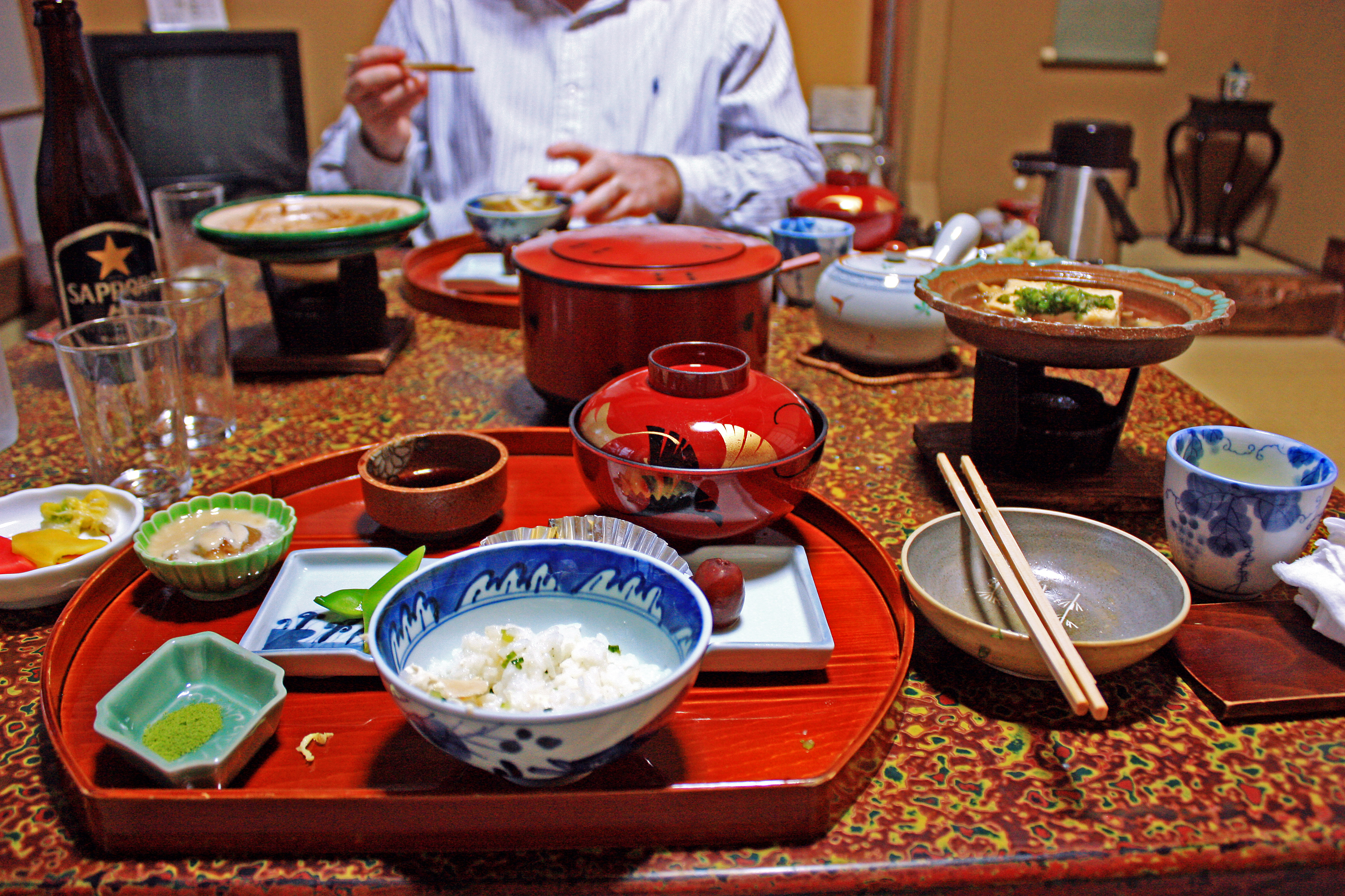 A typical table setting in Japan. A variety of plates and dishes are used to serve small amounts of different foods.